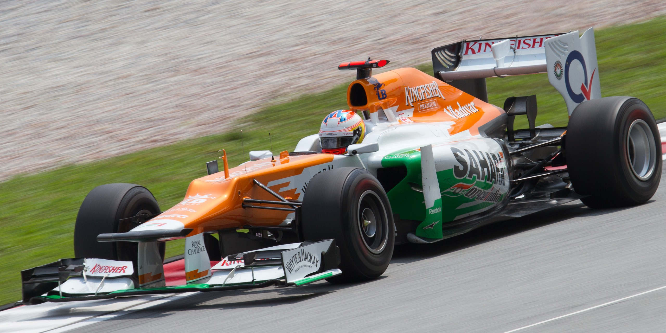 Formula One 2012 Rd.2 Malaysian GP: Paul di Resta (Force India) during the first practice session on Friday.